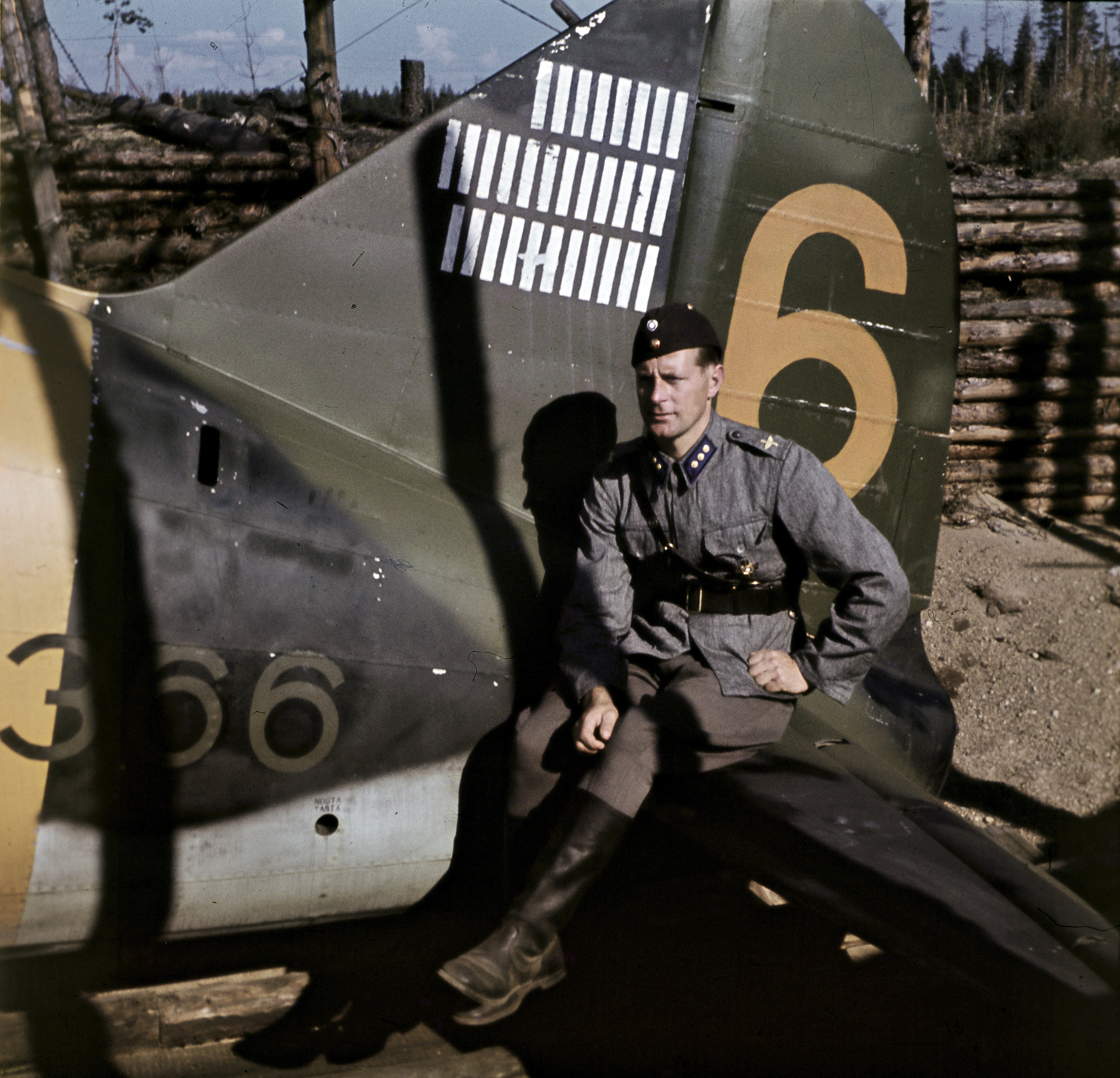 Jorma Karhunen, Knight of the Mannerheim Cross, who shot down 31 enemy aircraft, at Suulajärvi